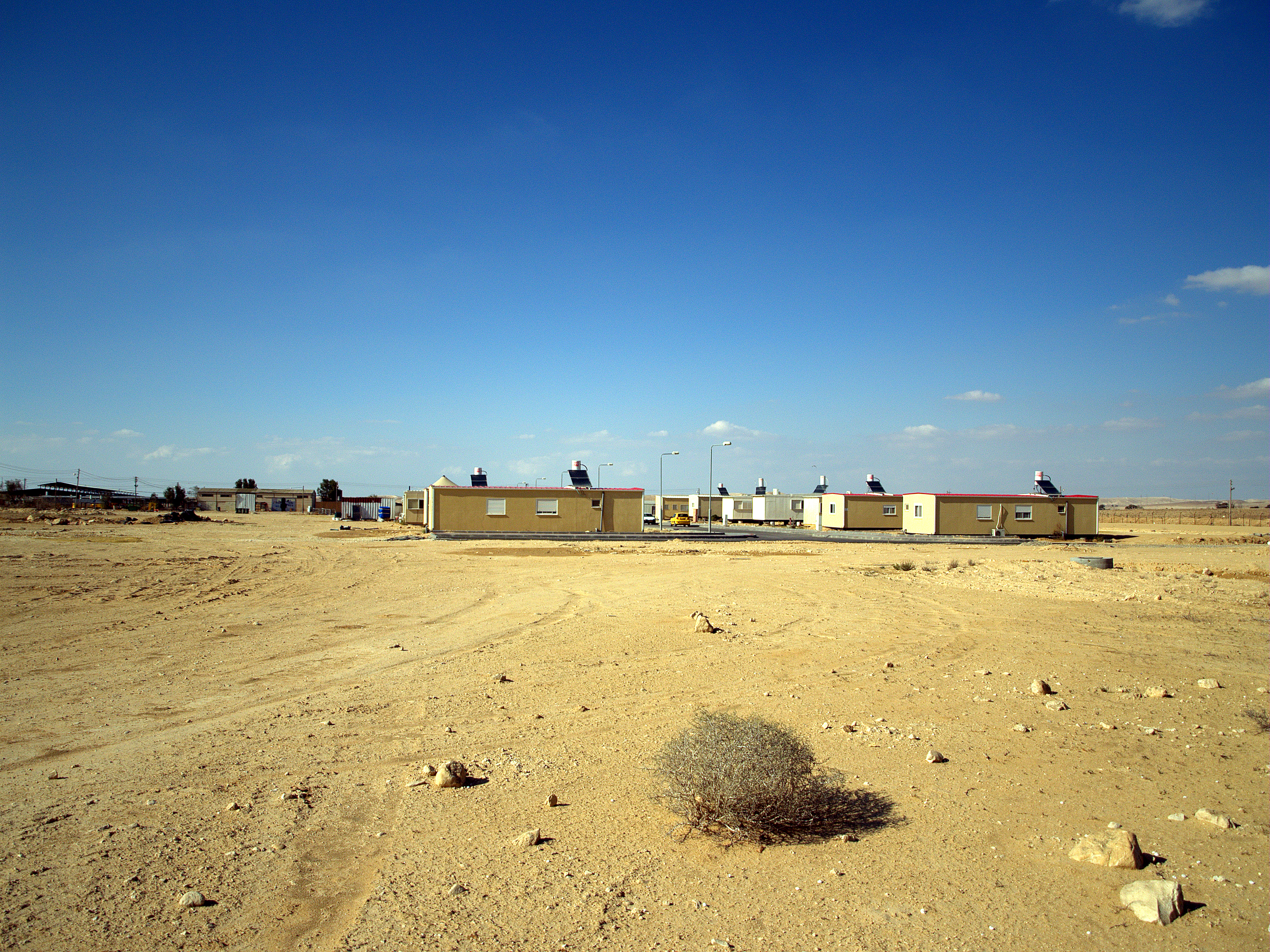 A Blueprint Negev planned community comprised of mobile homes in the Negev desert of Israel.